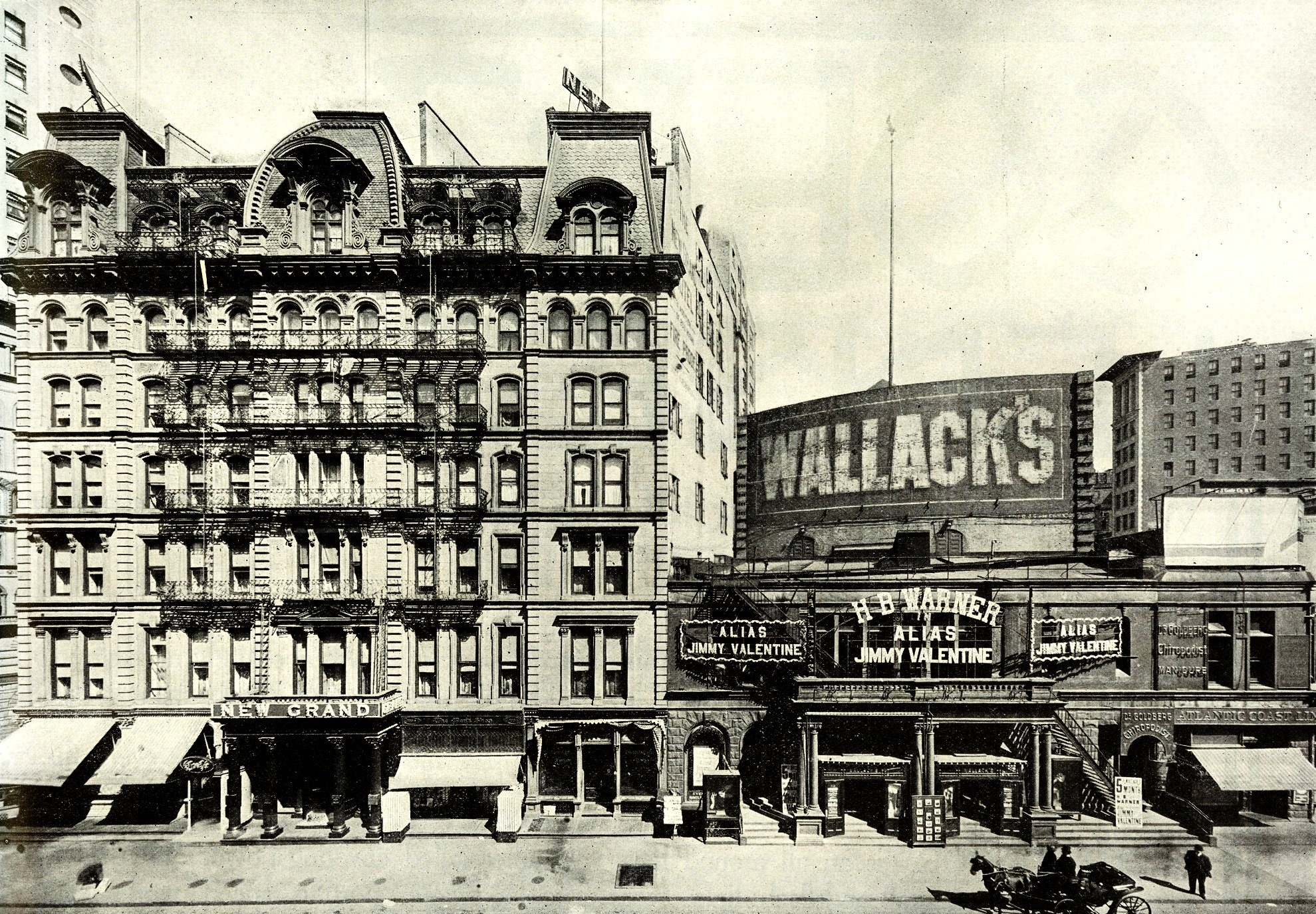 East side of Broadway, New York, 30th to 31st Streets, some time from January to June, 1910. Wallack's Theatre